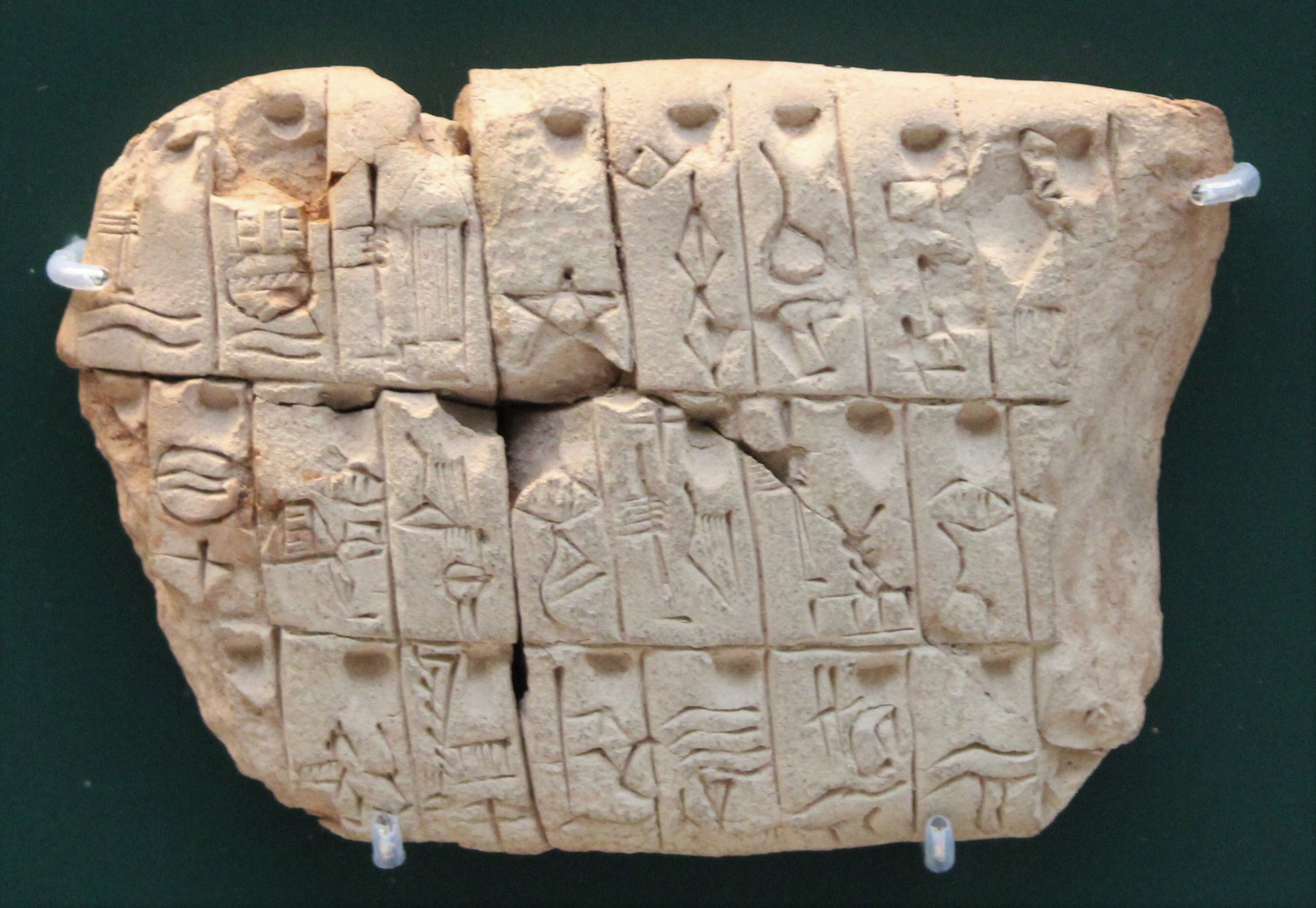 Lexical list of place names. "Proto-cuneiform" writing. From Jemdet-Nasr, Jemdet-Nasr period. BM 116625.